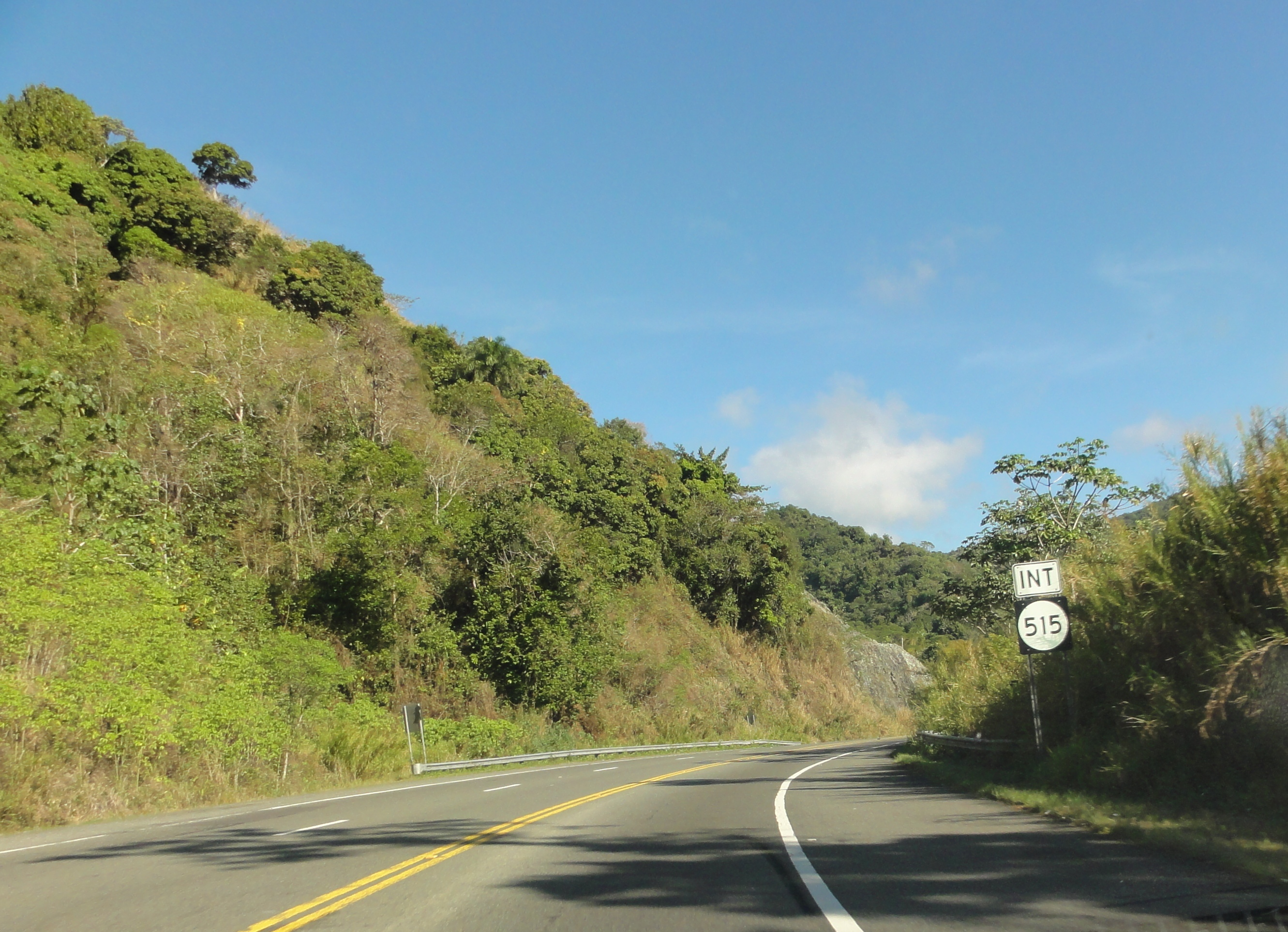 Carretera Puerto Rico 10 (PR-10) viajando hacia el norte, acercandose a la interseccion con la PR-515 en Barrio Guaraguao, Ponce, Puerto Rico (DSC03014)